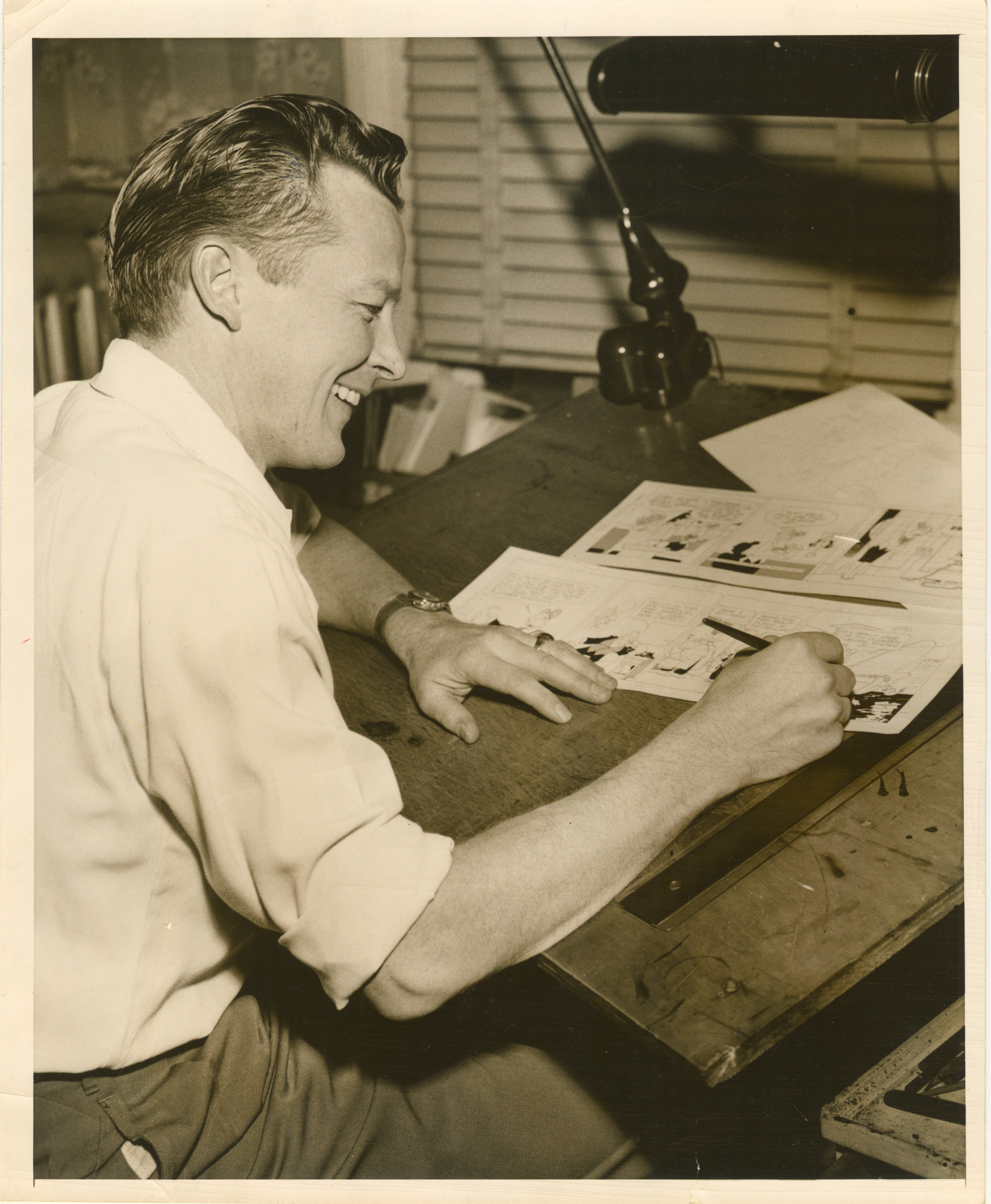 Vernon V. Greene at the drawing board in his home studio, Wyckoff NJ.